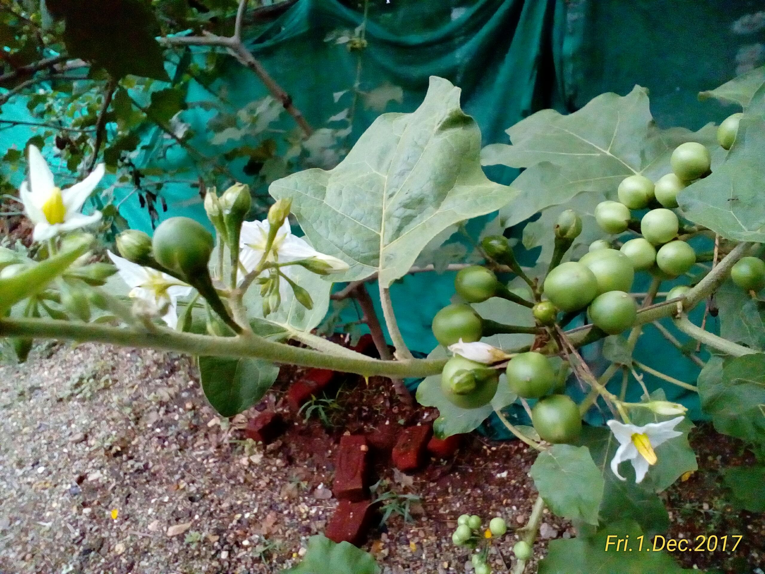 Solanum torvum is a bushy, erect and spiny perennial plant The plant is usually 2 or 3 m in height and 2 cm in basal diameter, but may reach 5m in height and 8 cm in basal diameter. The shrub usually has a single stem at ground level, but it may branch on the lower stem. The stem bark is gray and nearly smooth with raised lenticels.